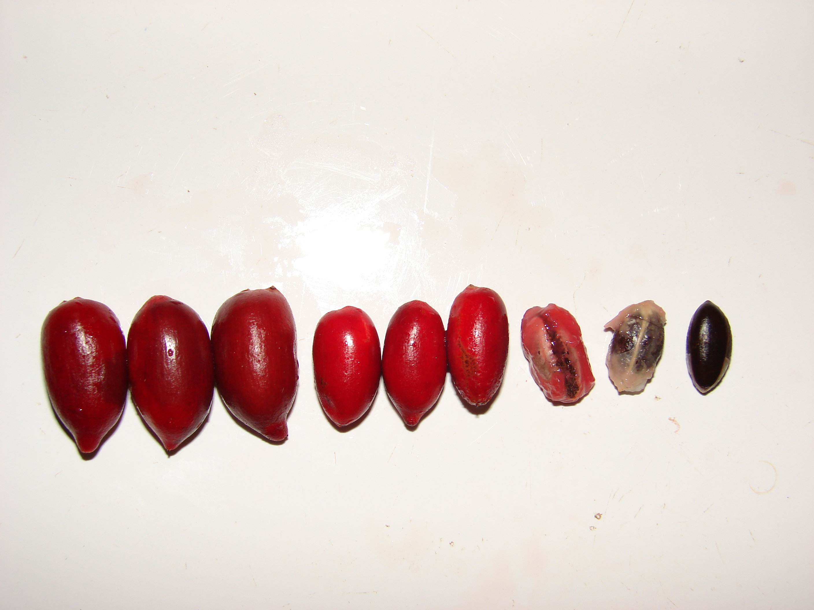 Synsepalum dulcificum (seeds). Location: Maui, Makawao